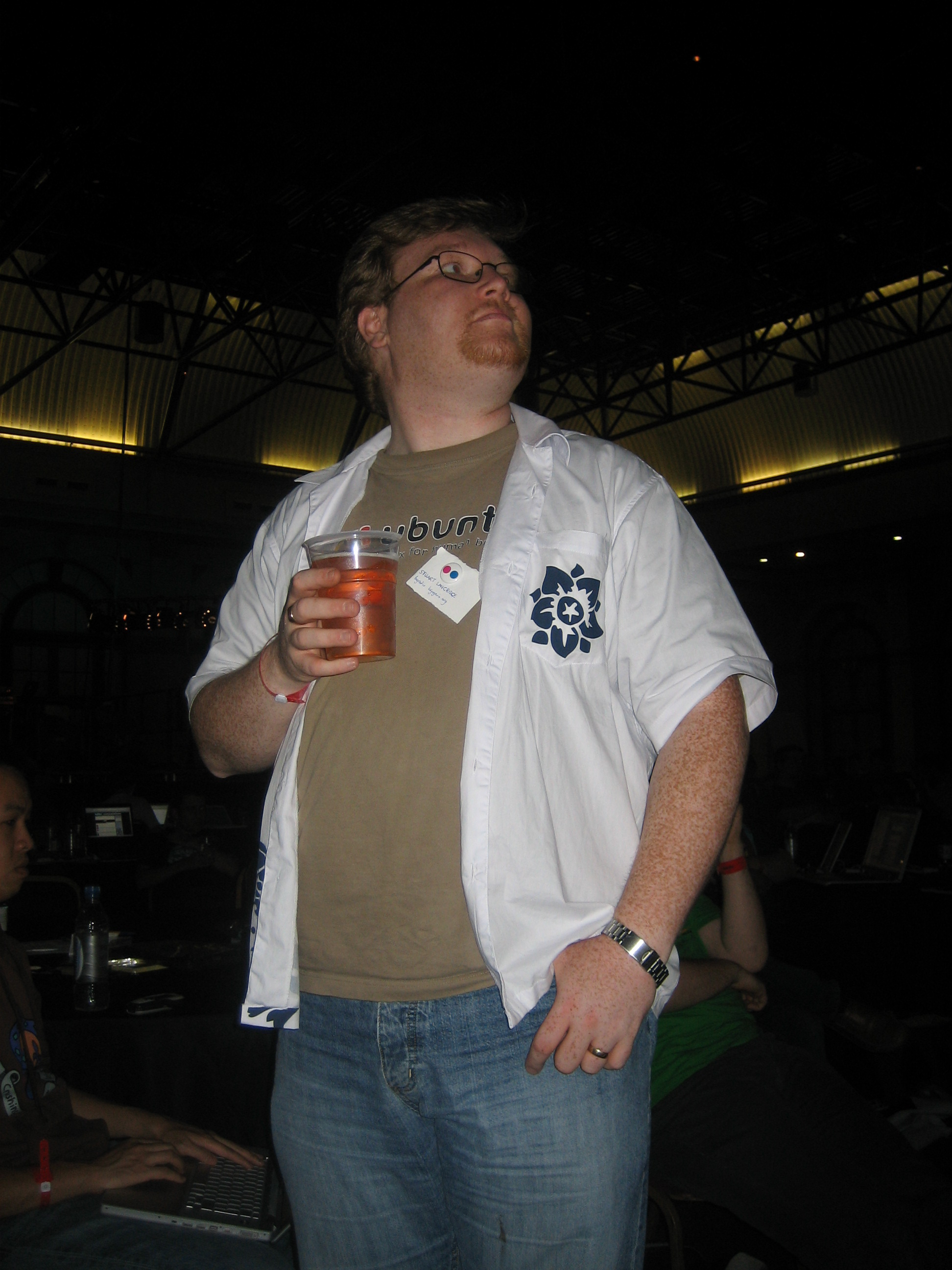 'My savior' by Sheila Ellen.